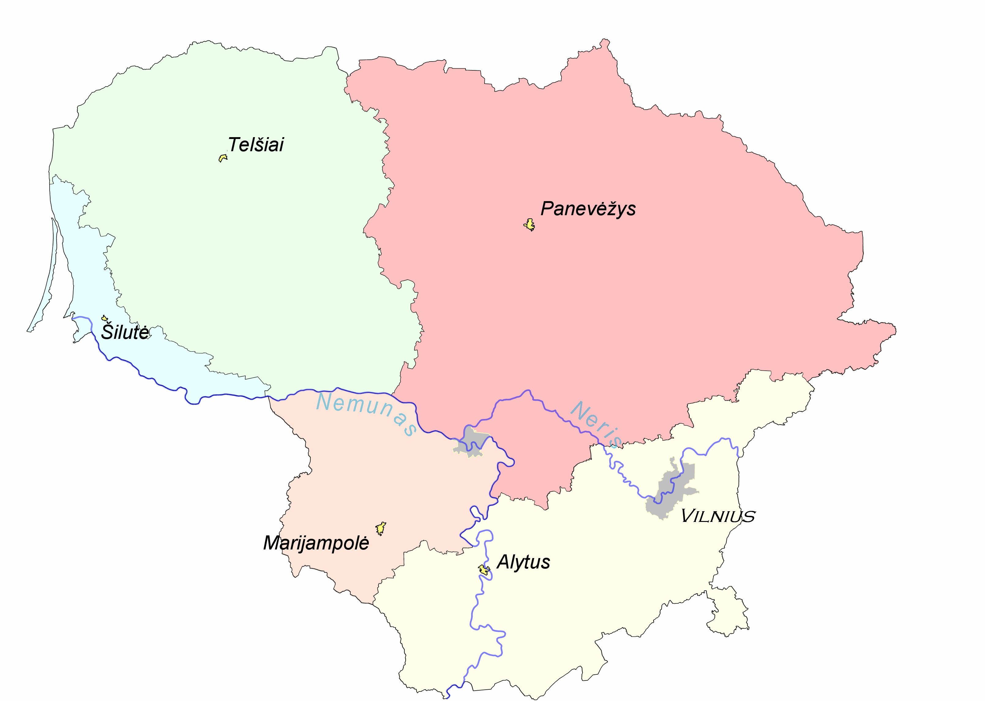 Ethnographic regions of Lithuania within borders of modern Lithuania. Ethnographic regions of Lithuania are not based on political history or administrative divisions. The regions are based on cultural differences of ordinary people living there. Lithuania Minor (Mažoji Lietuva) Samogitia (Žemaitija) Highland (Aukštaitija) Dainava (Dzūkija) Sudovia (Suvalkija) unofficial capitals of each region Vilnius and Kaunas - historical capitals of Lithuania